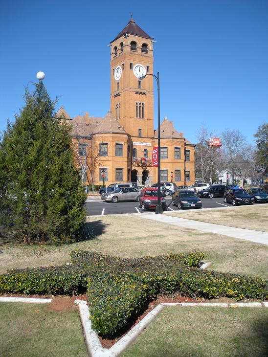 This is a picture of the Tuskegee City Center in Tuskegee, Alabama.